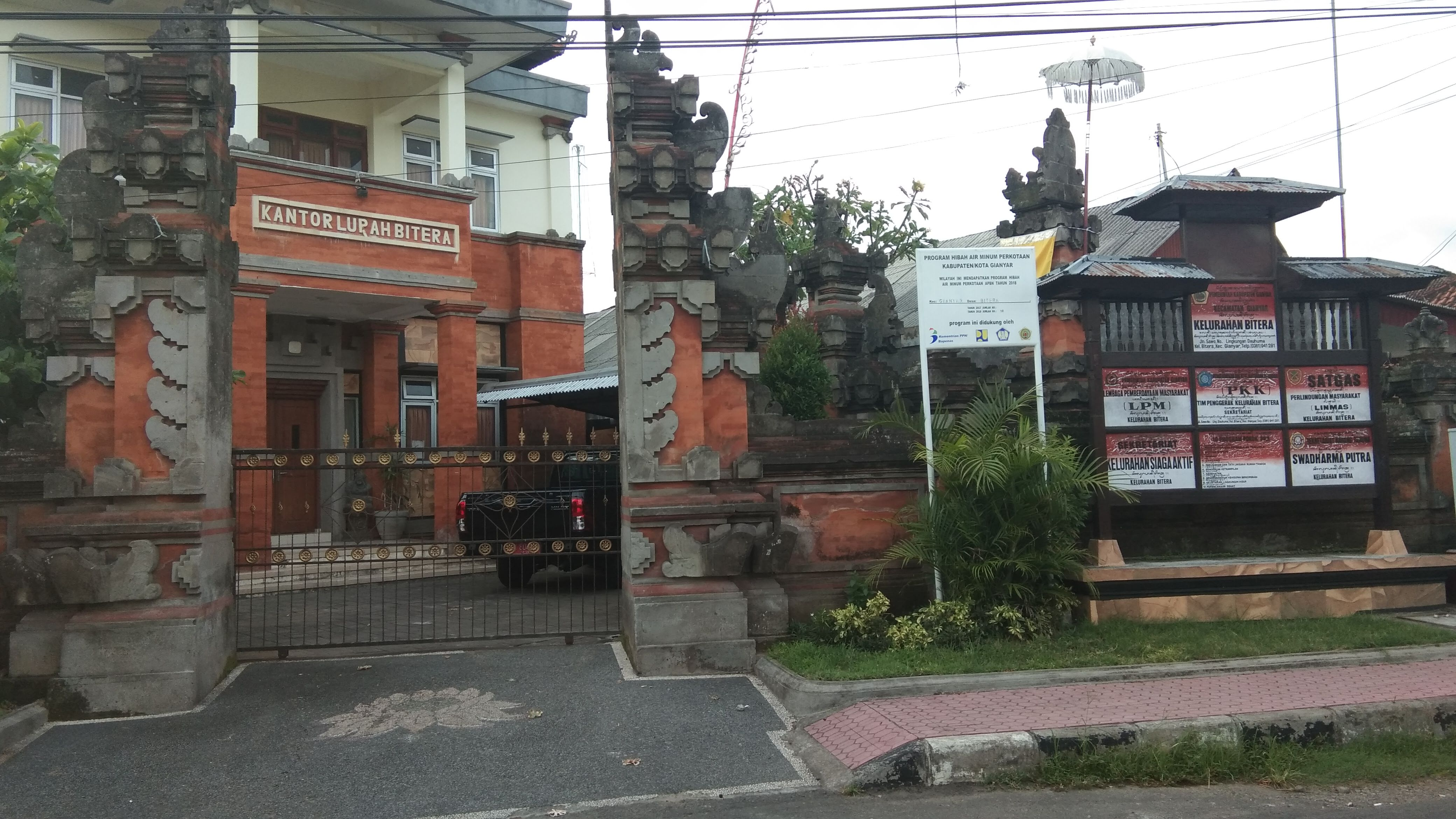 Bitera sub-district government office in Gianyar district, Gianyar regency